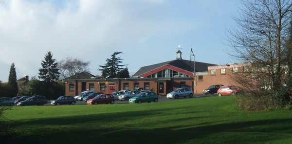 Civic Offices, Wombourne, Staffordshire, Great Britain (A large building provides offices and function rooms for the local council in Wombourn.)